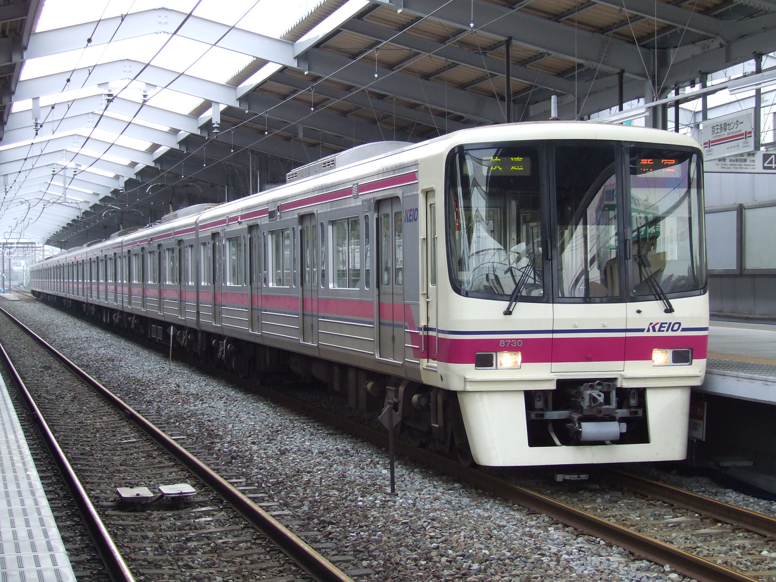 A Keio 8000 series EMU at Keiō-Tama-Center Station on the Keio Sagamihara Line